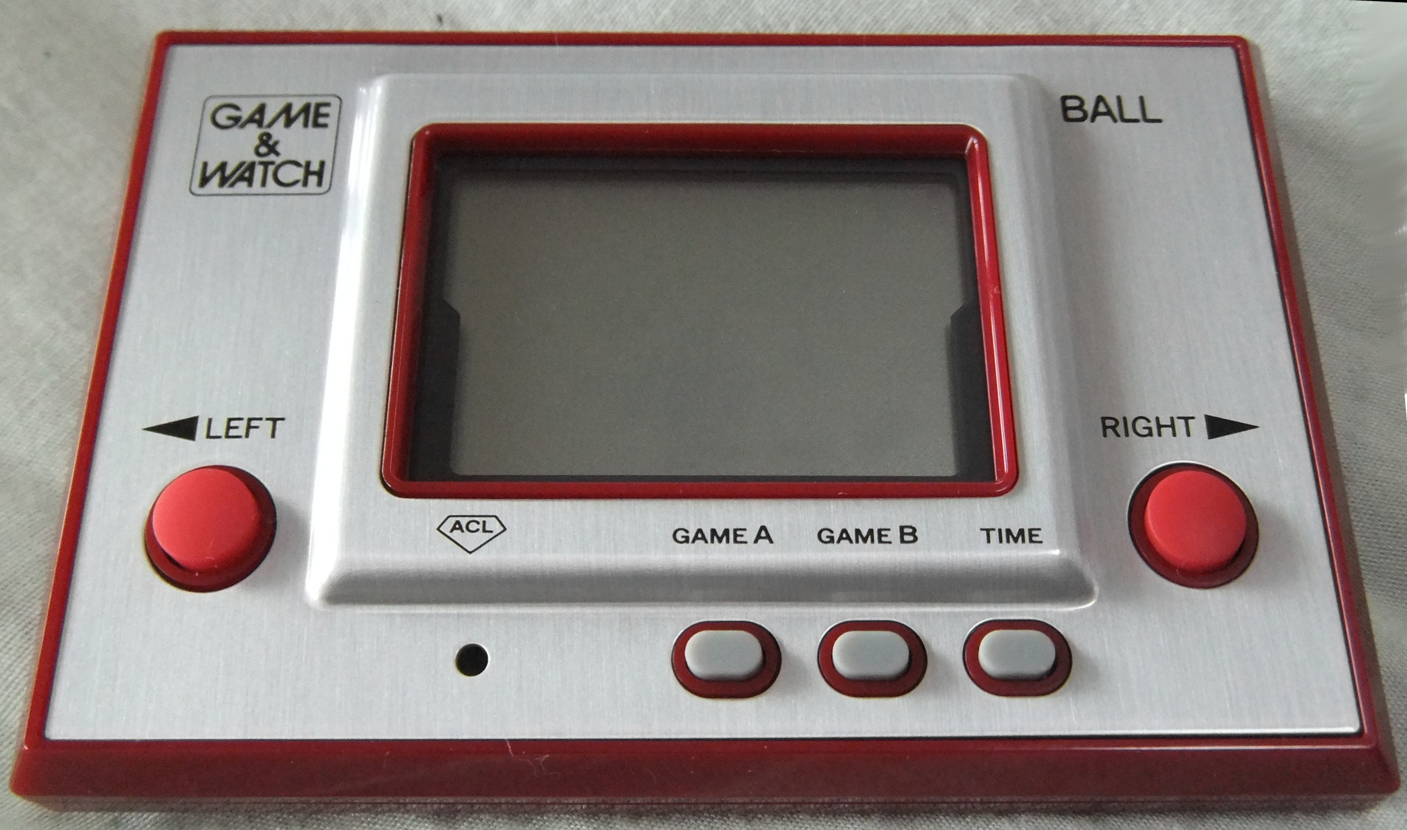 Ball - Game&Watch - Nintendo. This is the reissued model of 2009 (RGW-001) for the 30th anniversary. It has been made available to Japanese (2009) and American (2011) members of the Club Nintendo program